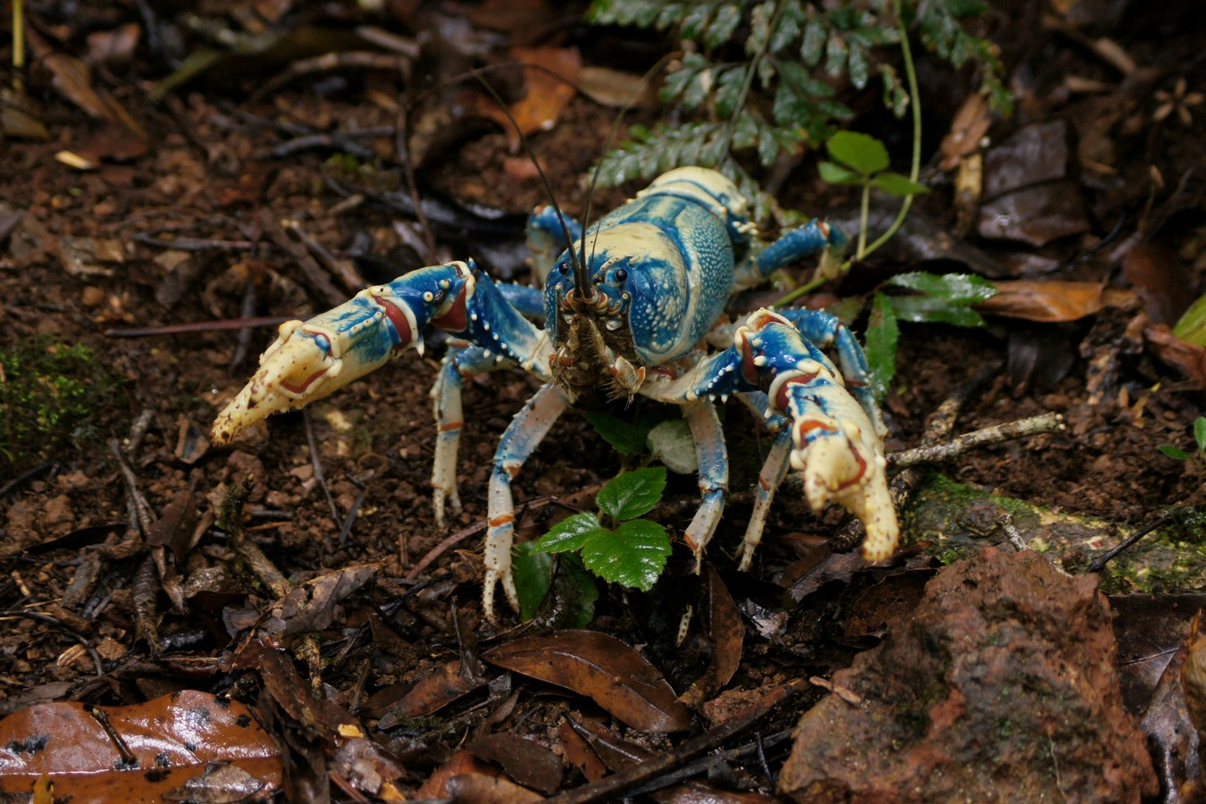 Endemic Lamington blue Spiny Crayfish, was wondering in walking path near the creek, out of water, in defensive position when it heard us walking. Coomera circuit walking track, Binna-Burra section Lamington National Park in Queensland, Australia.